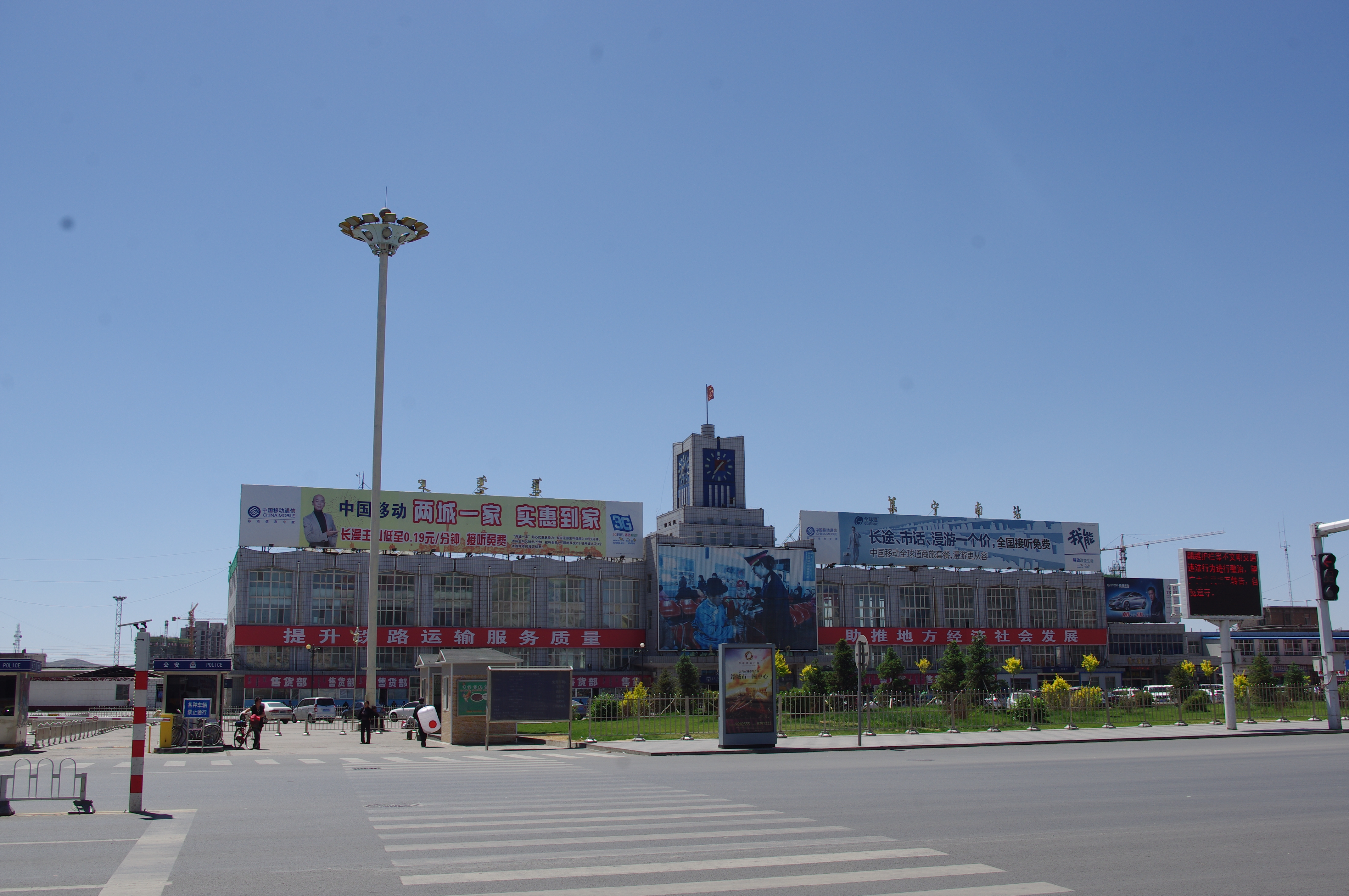 Jining South Train station